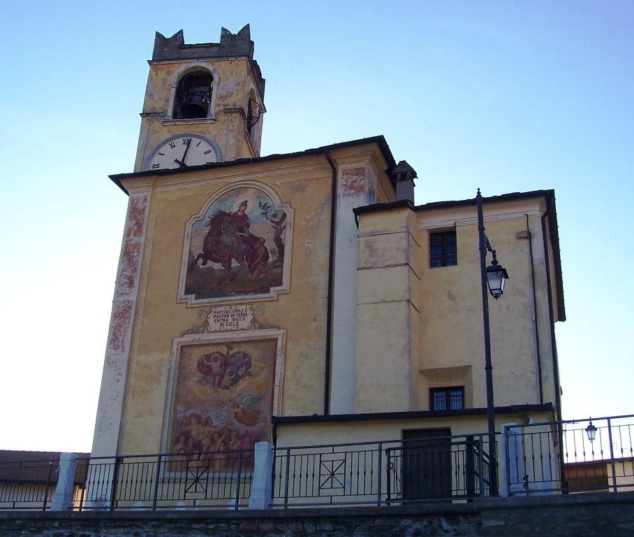 Church of St Martin. Villa Dalegno, Temù, Val Camonica.